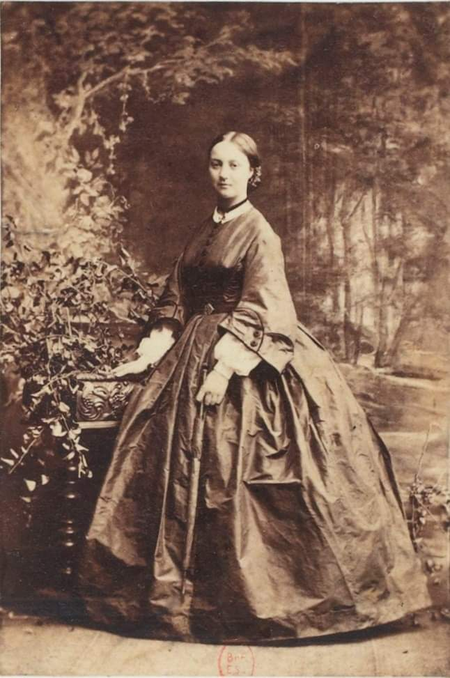 Anonymous and undated photograph of Princess Françoise of Orléans (1844–1925), Duchess of Chartres